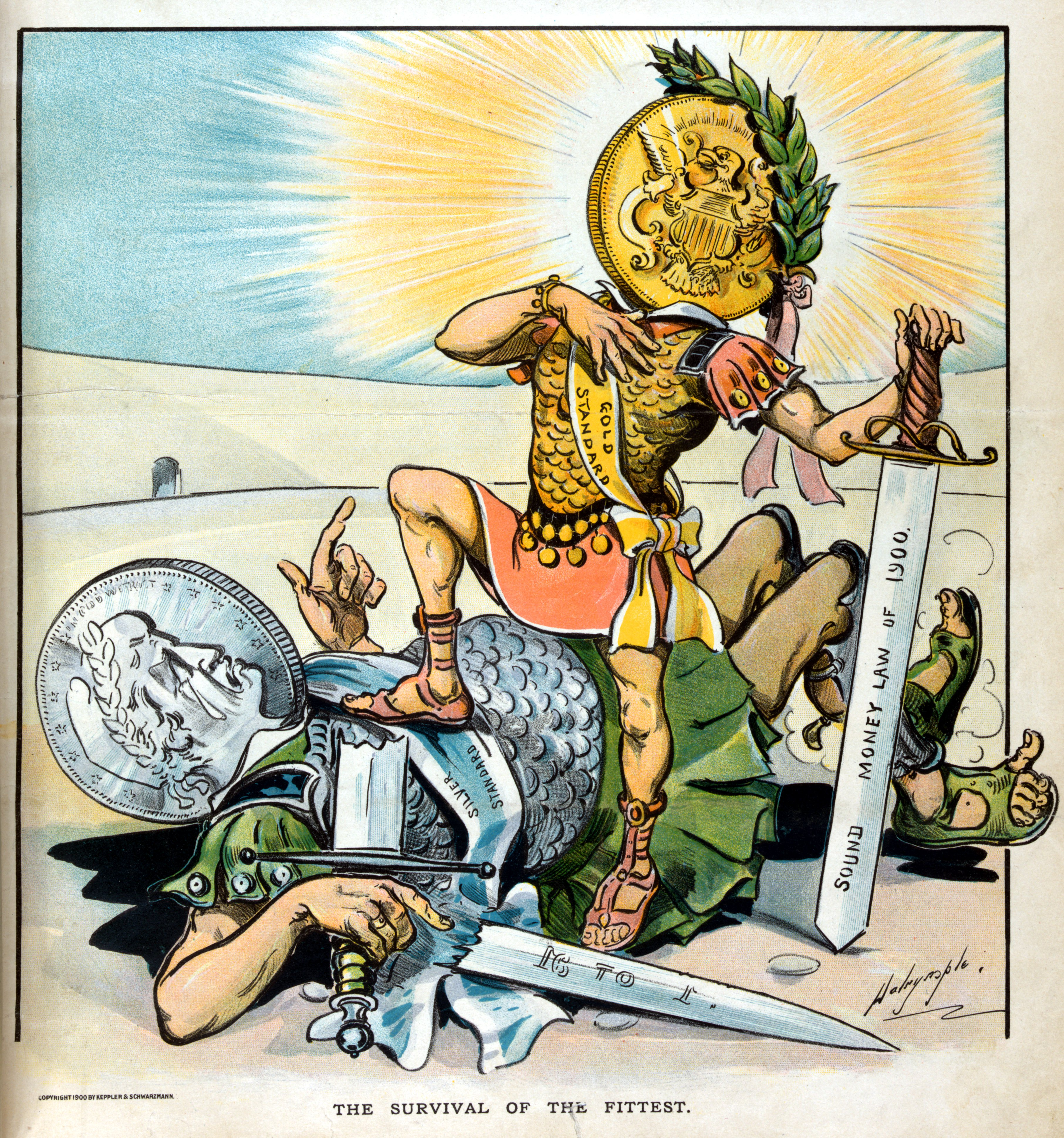 Cover image of Puck Magazine, v. 47, no. 1201 (1900 March 14). Illustration showing two gladiators, one labeled "Gold Standard" and the other labeled "Silver Standard", in a colosseum. The "Gold Standard" gladiator, with a sword labeled "SOUND MONEY LAW OF 1900", stands victorious over the "Silver Standard" gladiator whose sword, labeled "16 to 1", lies broken at his side.